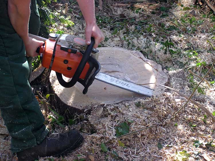 A petrol-driven chainsaw finishing off the felling of a eucalyptus tree in Yate, Bristol, England. The high-speed rotating chain can be seen as the dark edging to its supporting frame.